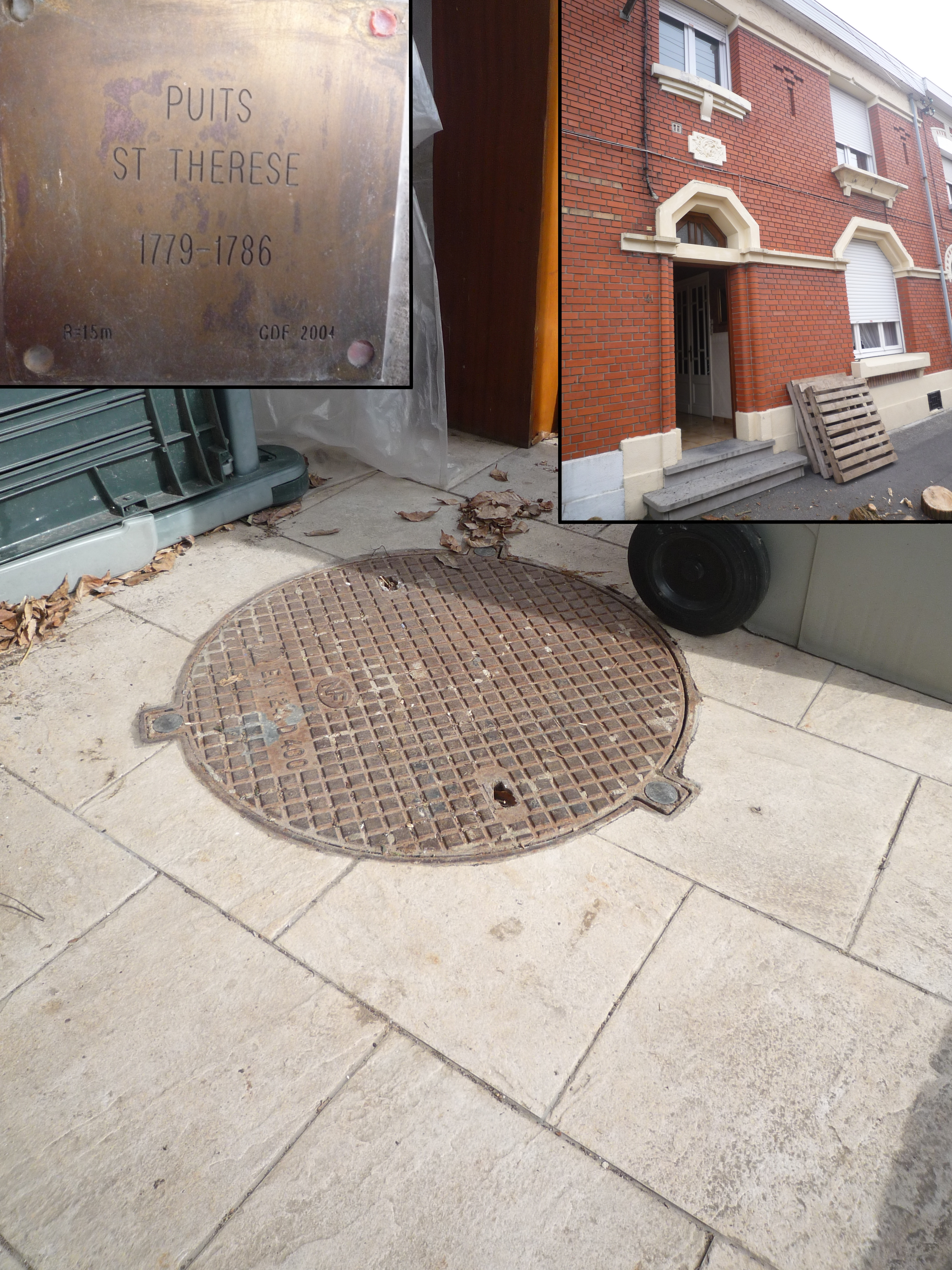 Pit Sainte Thérèse, Compagnie des mines d'Aniche, Aniche, Nord, Nord-Pas-de-Calais, France.